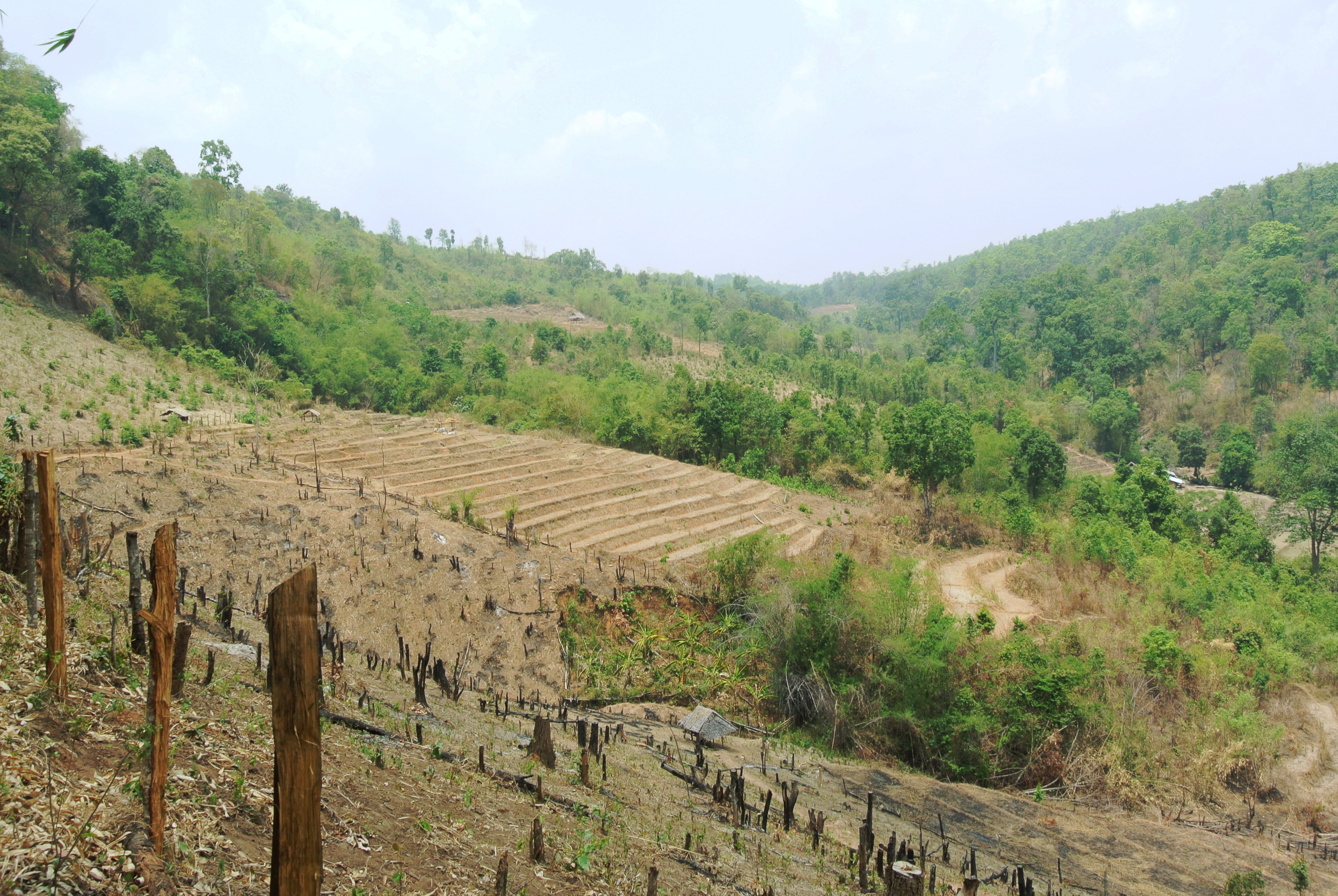 Rice fields cultivated by the Karen tribe in Northern Thailand, near Doi Inthanon National Park. Controlled forest burns in the foreground.